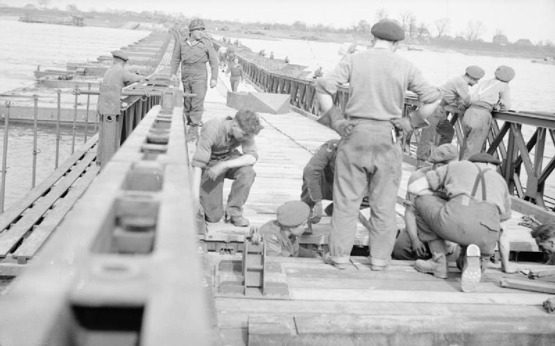 The British Army in North-west Europe 1944-45- Class 40 Bridge Over the Rhine R.Es putting in the final planks of the bridge.